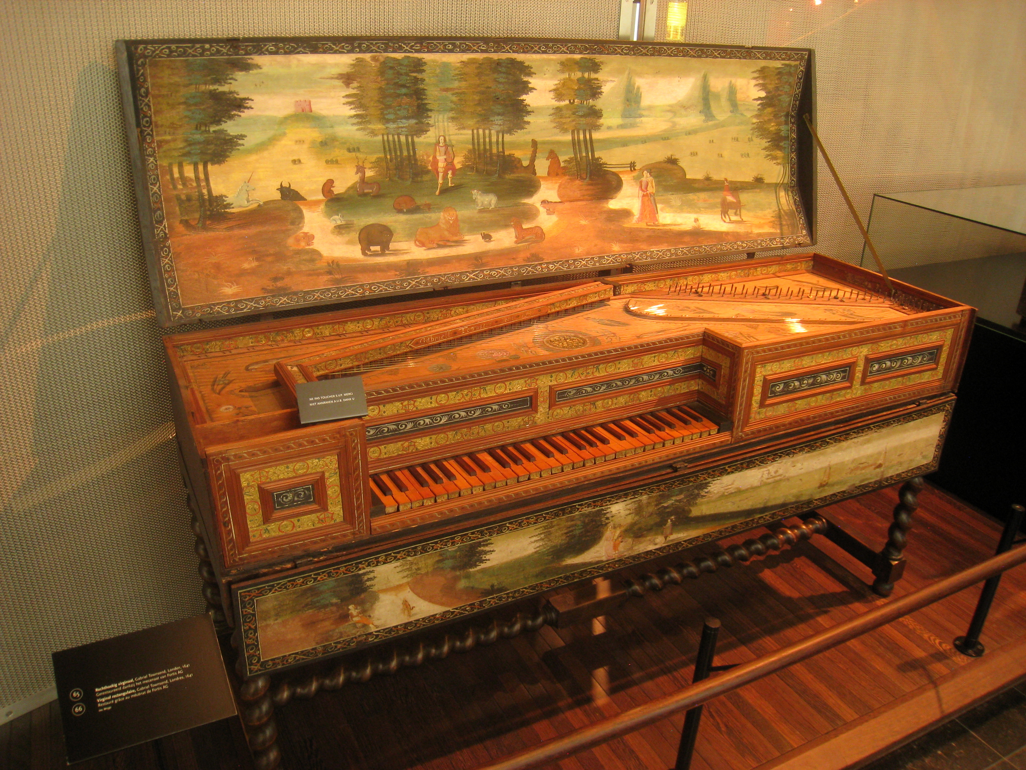 Keyboard instrument in the Musical Instrument Museum, Brussels, Belgium. Gabriel Townsend, London, 1641 - virginal.